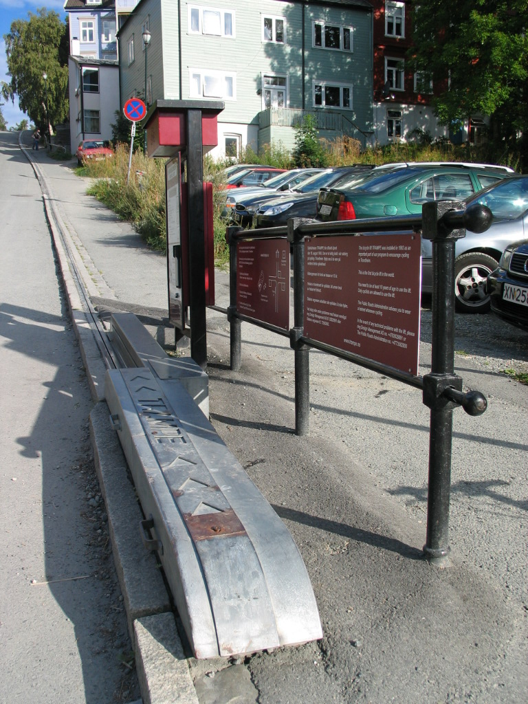 Bicycle lift in Trondheim